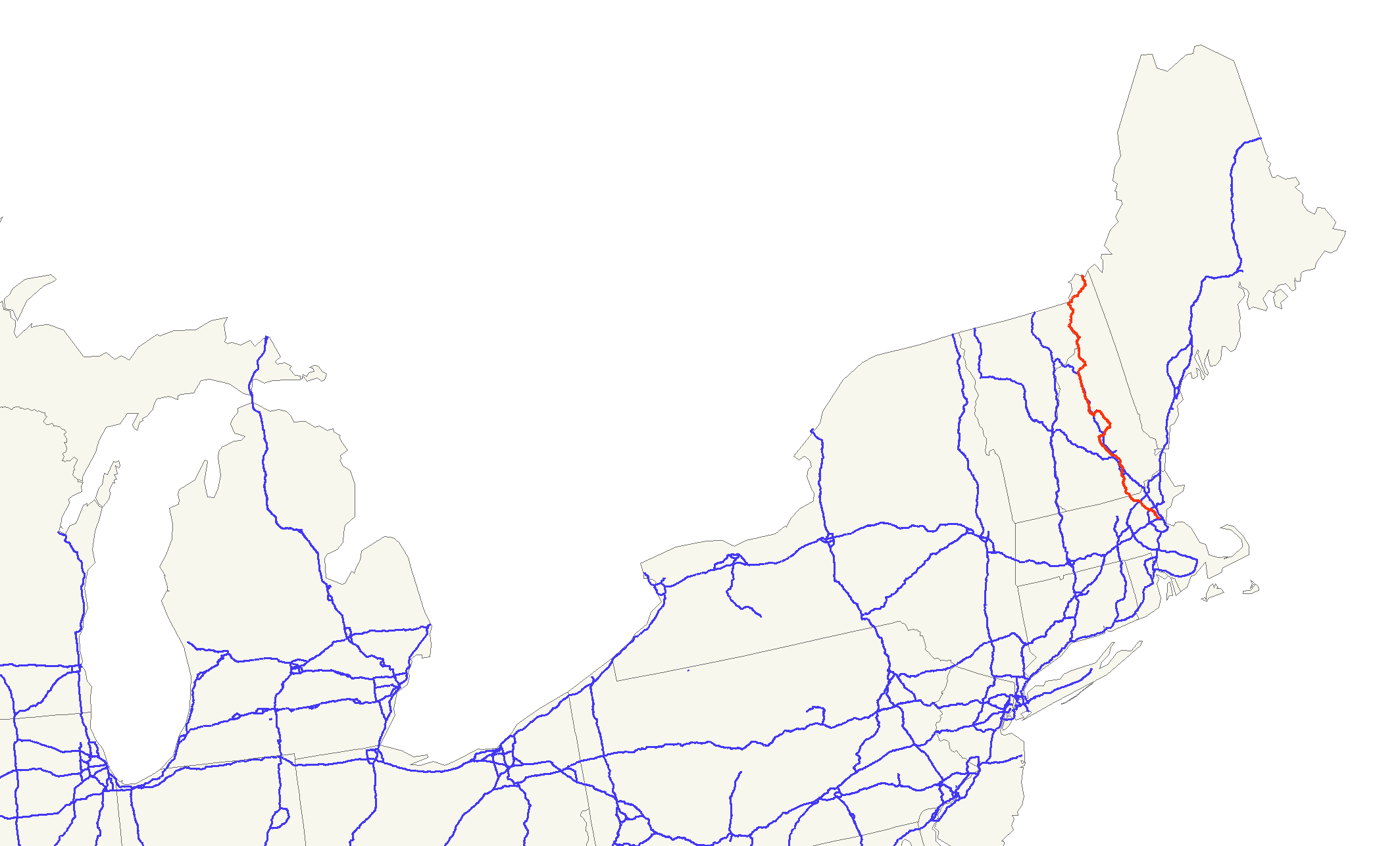 Map of U.S. Route 3